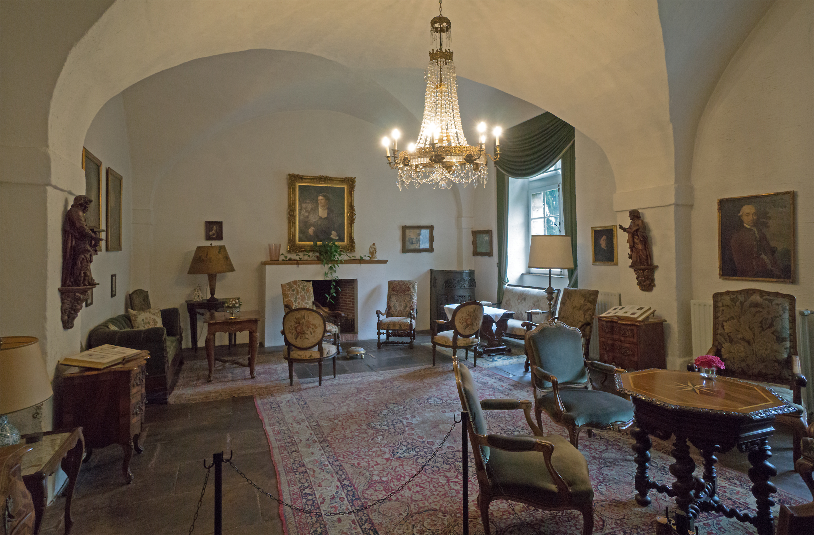 Interior room of the new castle of Beaufort